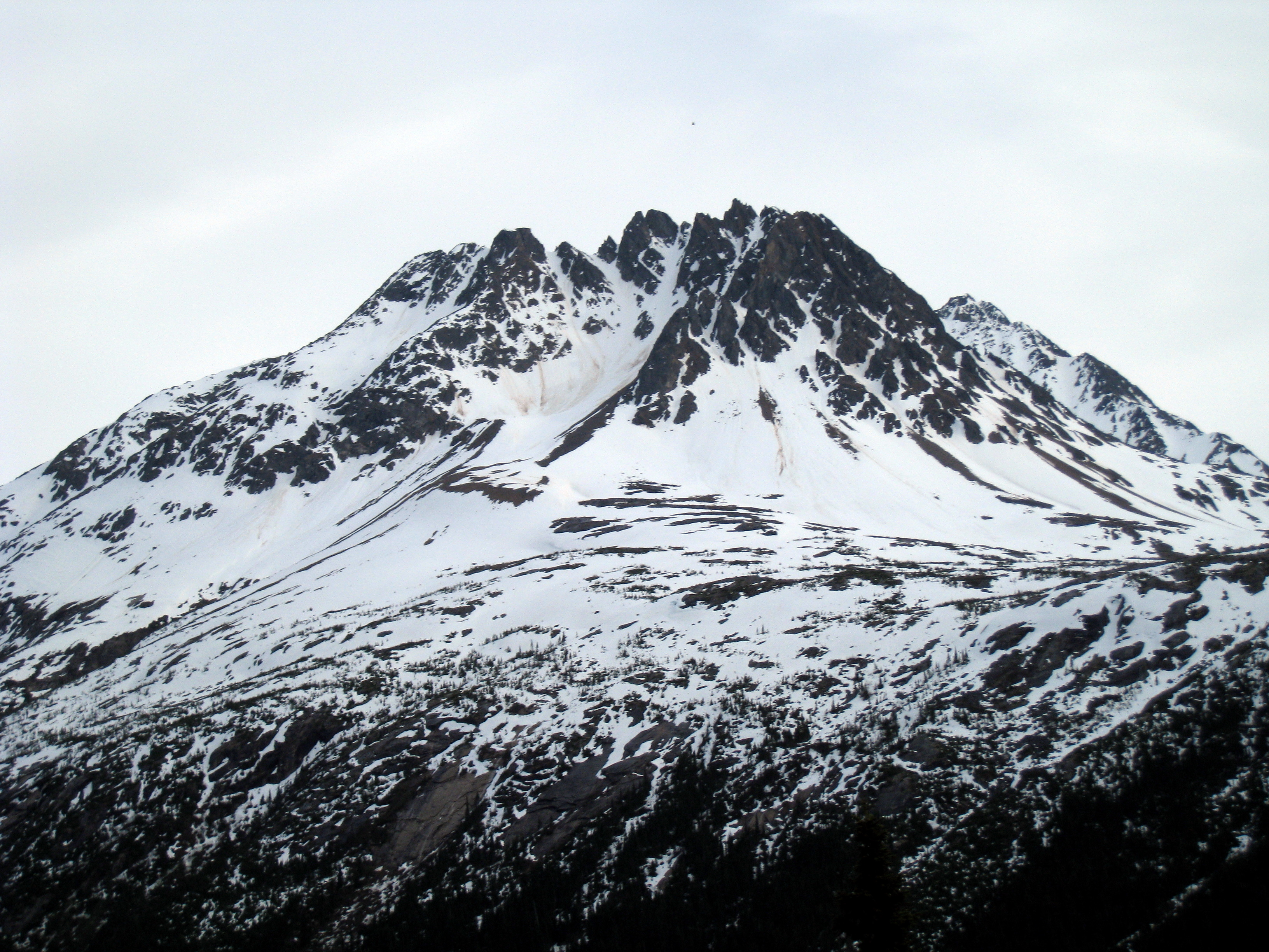 View from the White Pass and Yukon Route railway, June 2009